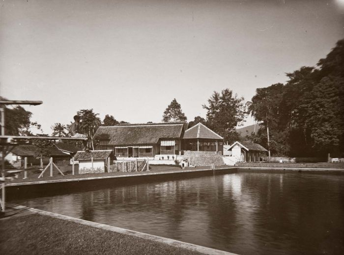 Swimming pool 'Tjimelati'